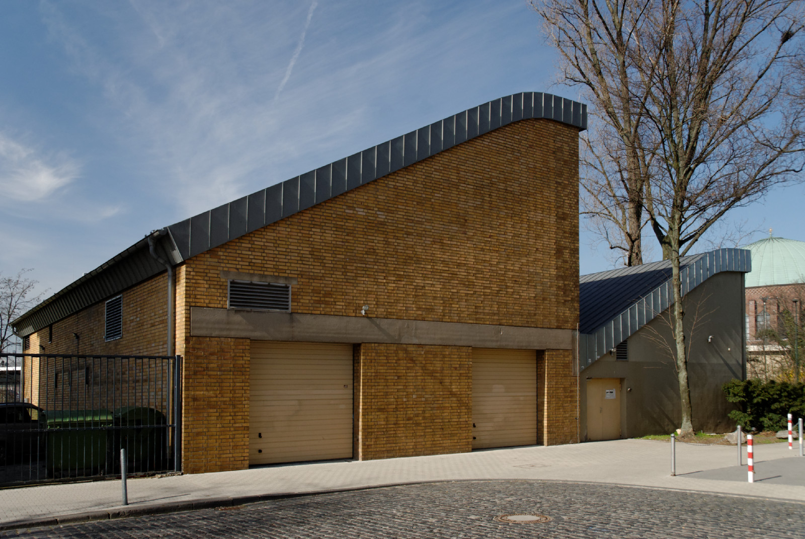 Atelier house of the Academy of Arts in Düsseldorf-Altstadt, Germany